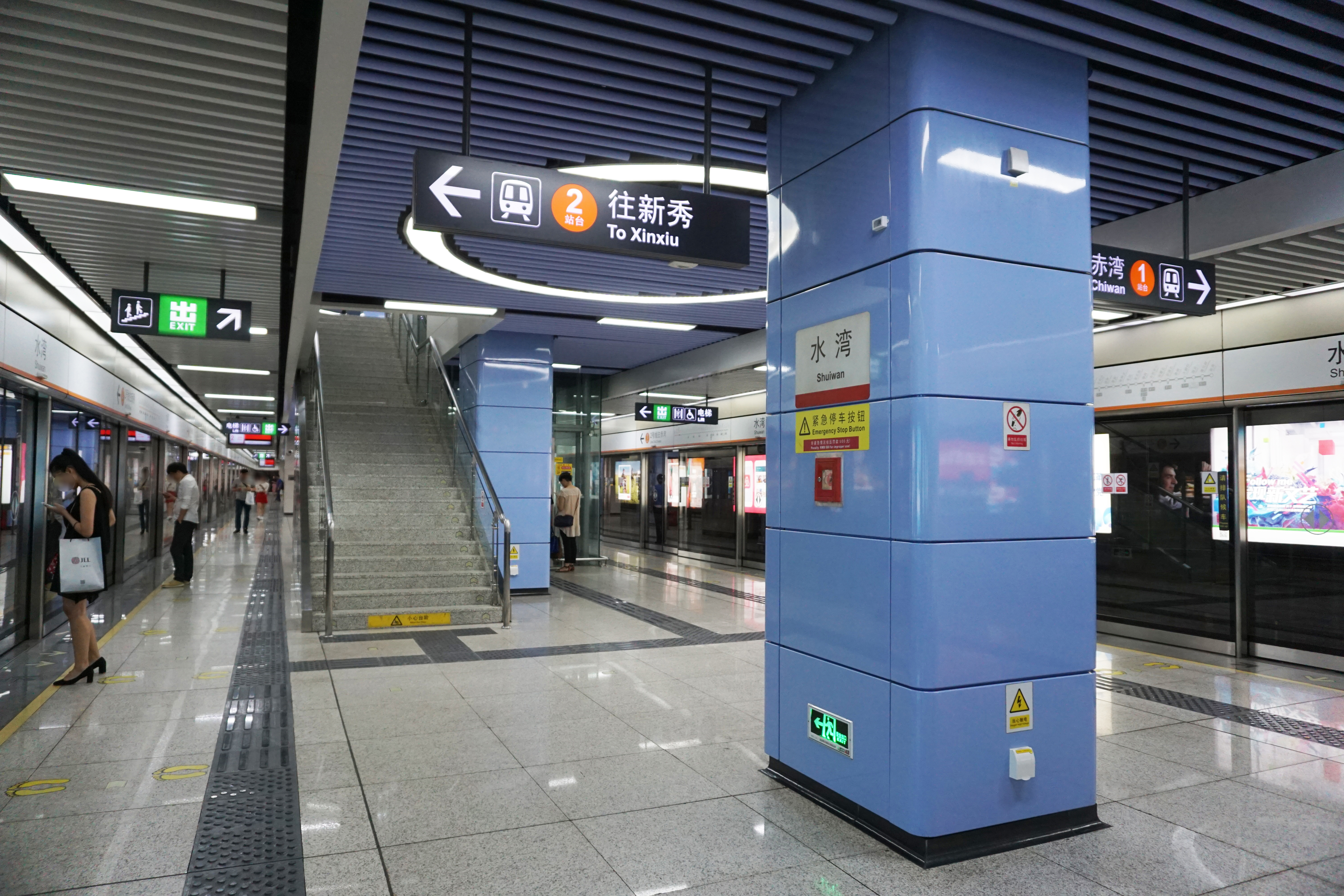 Shuiwan Station in Shekou, Shenzhen.